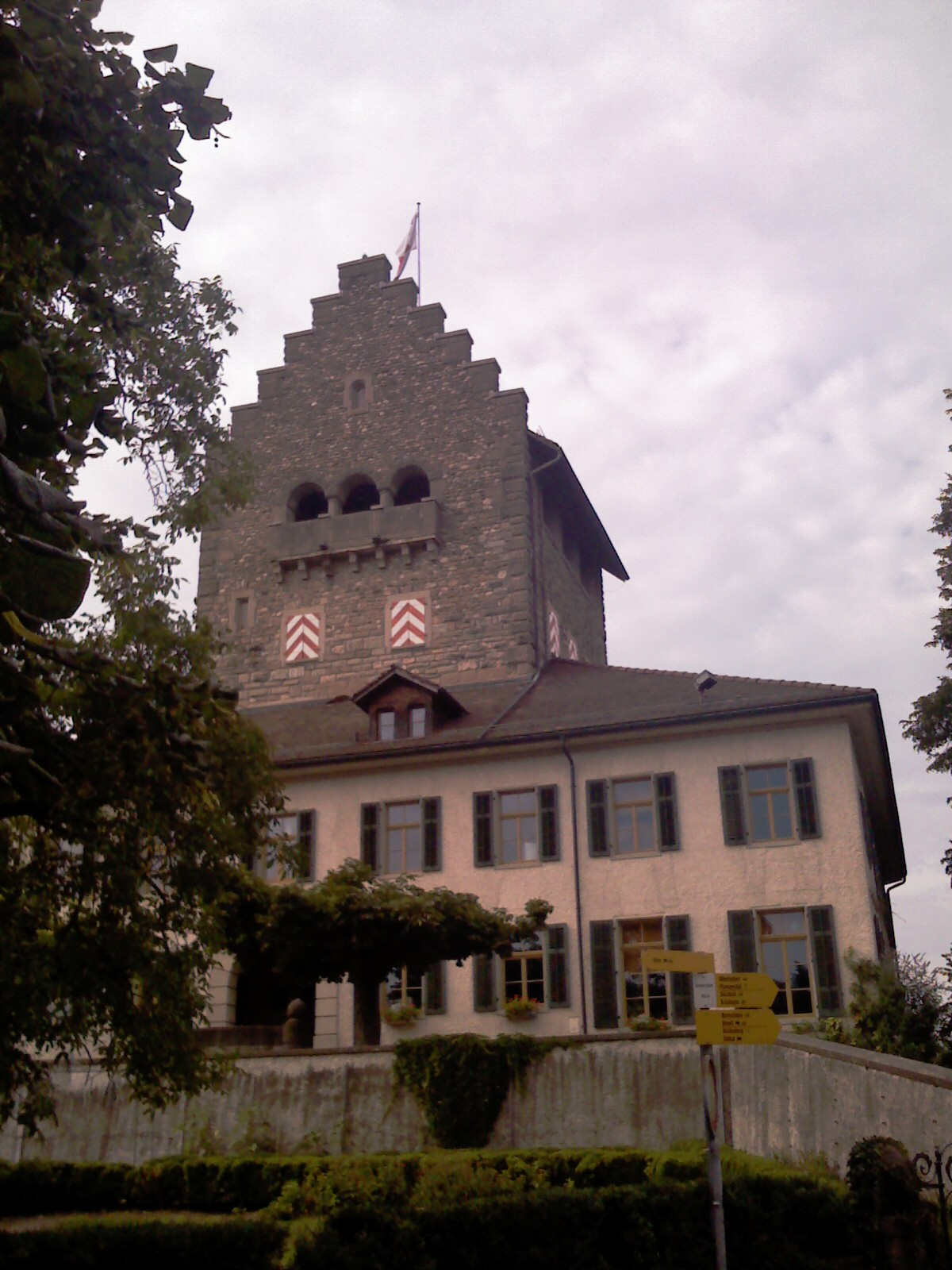 Castel Uster